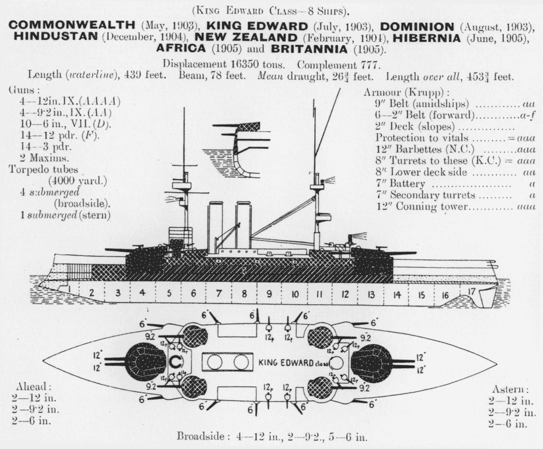 Diagrams showing left elevation and plan views of British King Edward VII class battleship.